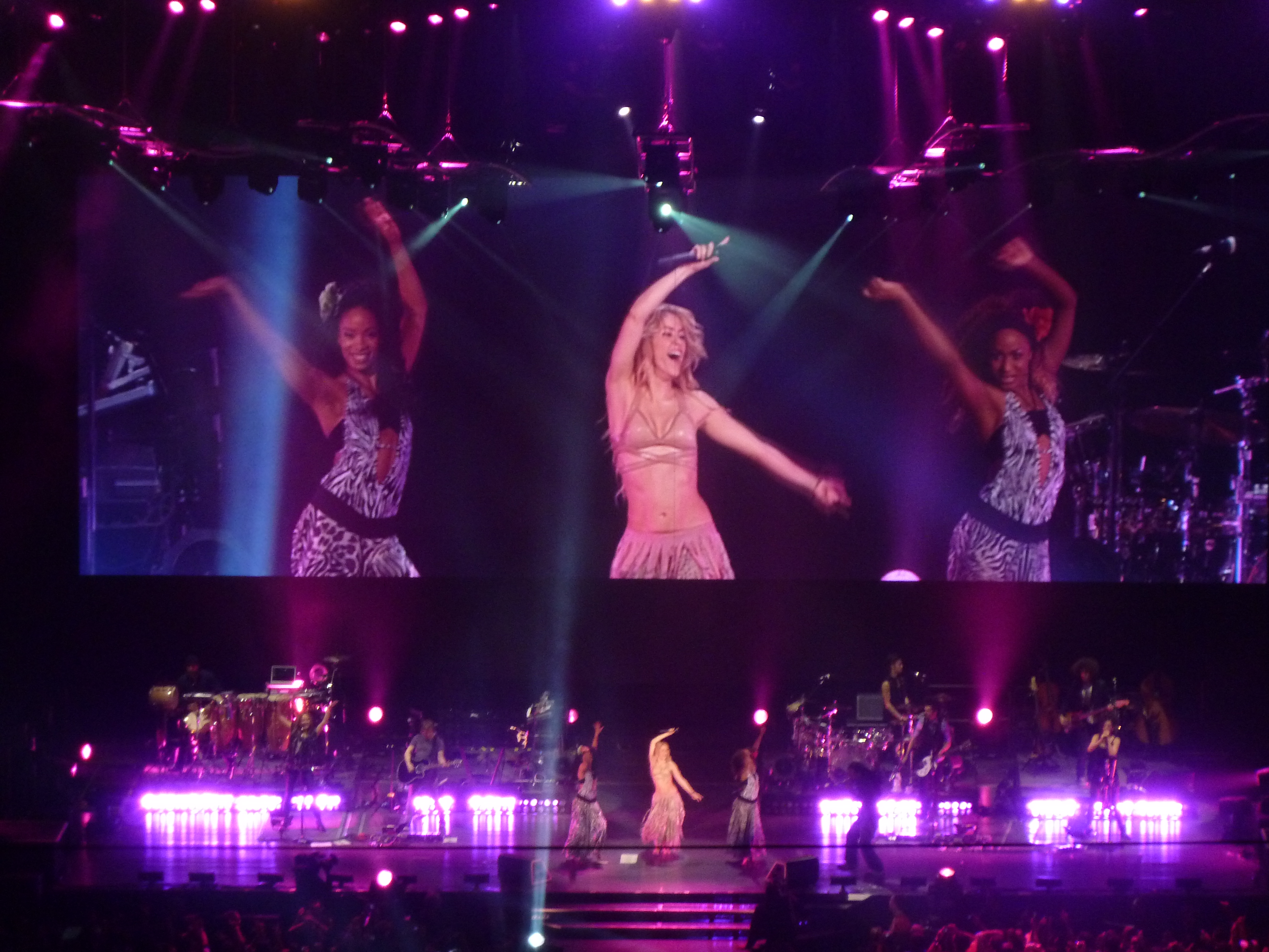 Shakira (Madrid)